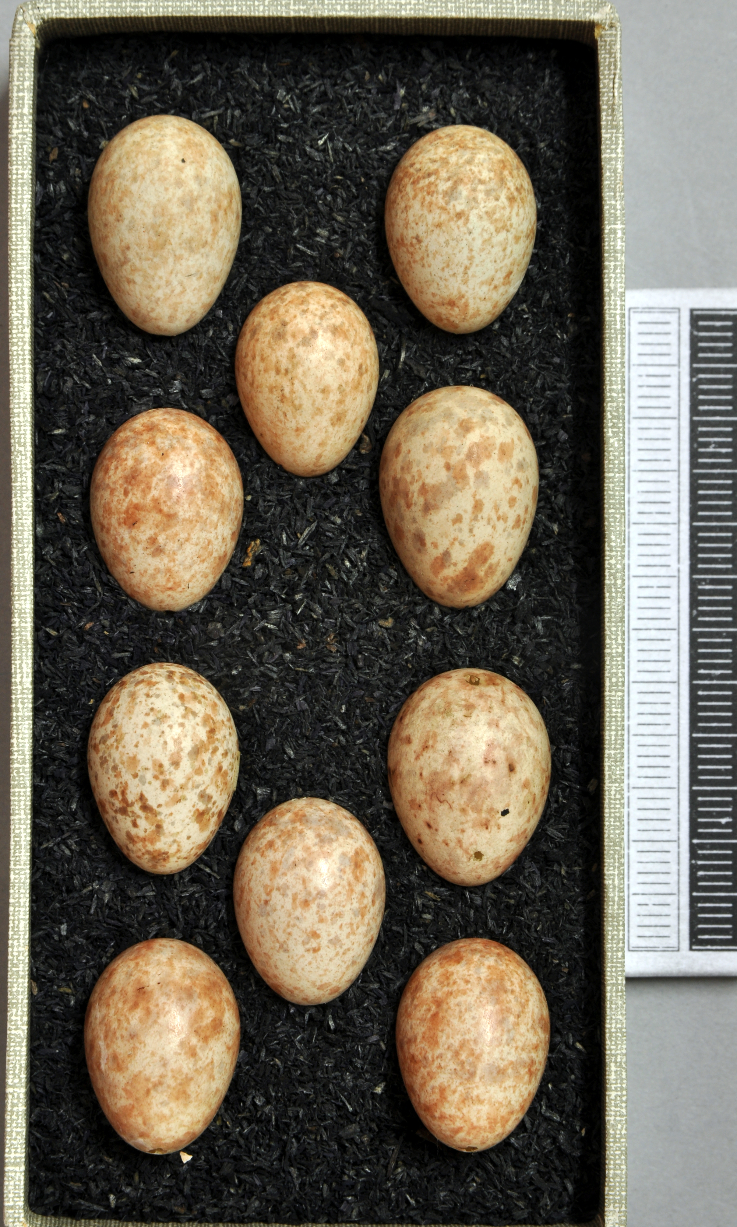 Spotted flycatcher Muscicapa striata , egg, Coll. Museum Wiesbaden